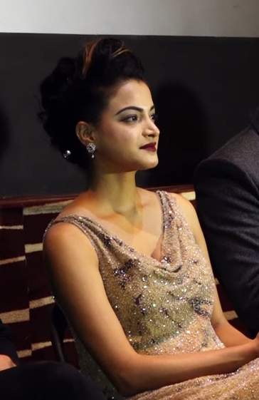 Deepika Prasain